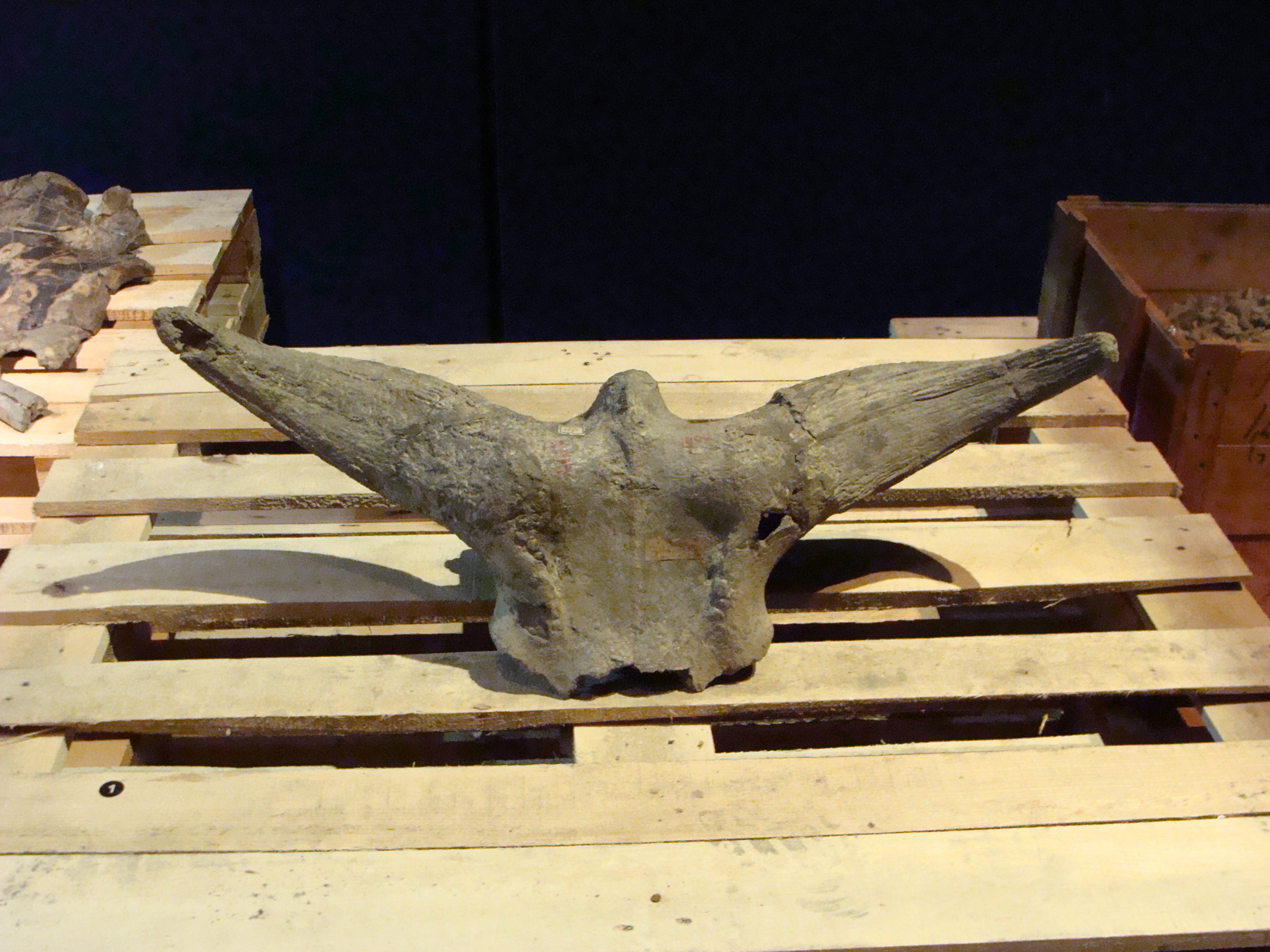 A skull of Bos palaesondaicus (=Bibos palaesondaicus). It was on display at the exhibition 'Dubois' in the National Museum of Natural History 'Naturalis' in Leiden, the Netherlands.